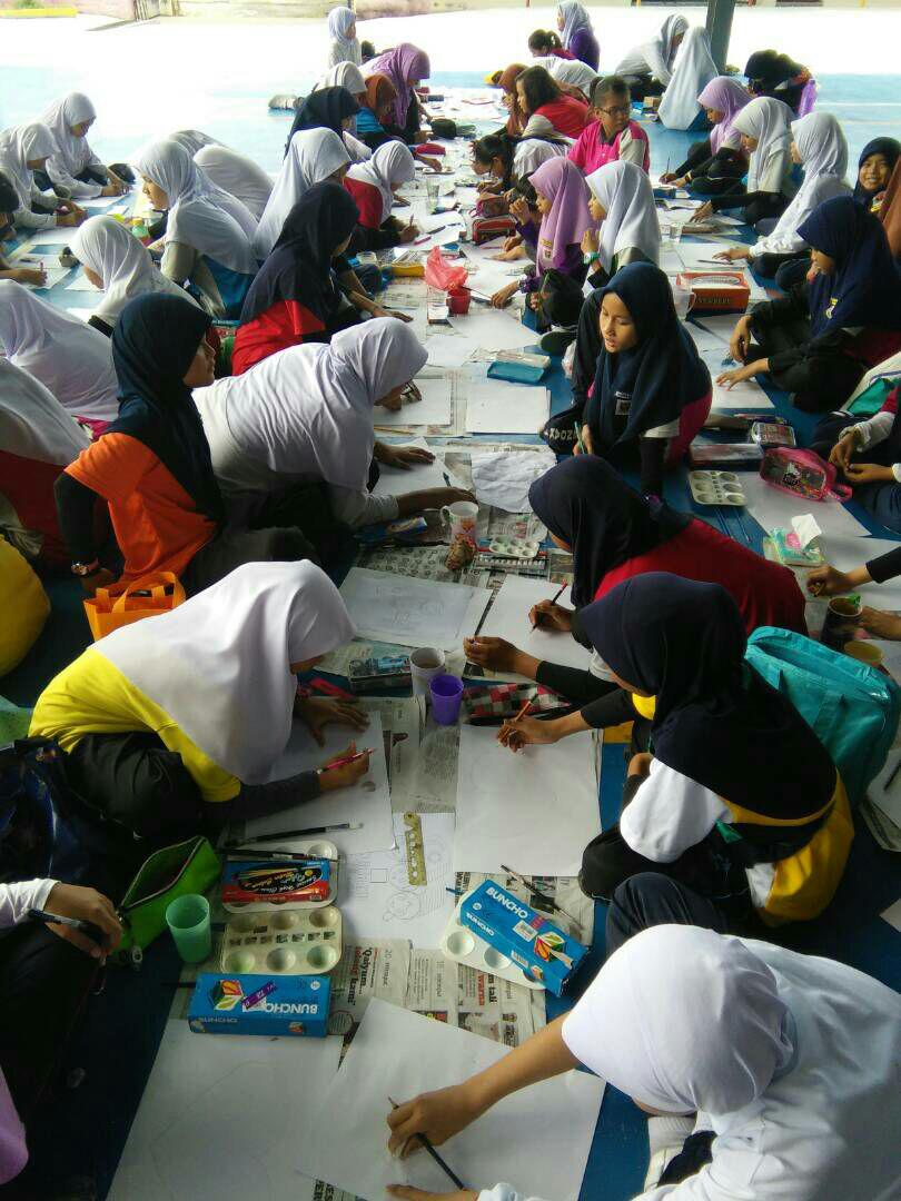 Murid Tahap 2